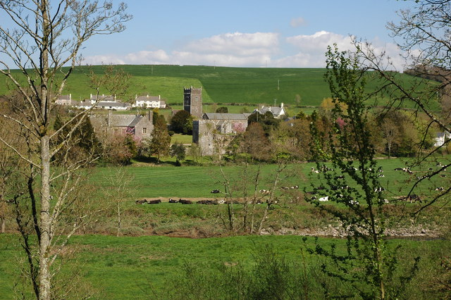 Weare Giffard Weare Giffard viewed from the Tarka Trail across the Torridge valley, in the centre is the church of Holy Trinity.